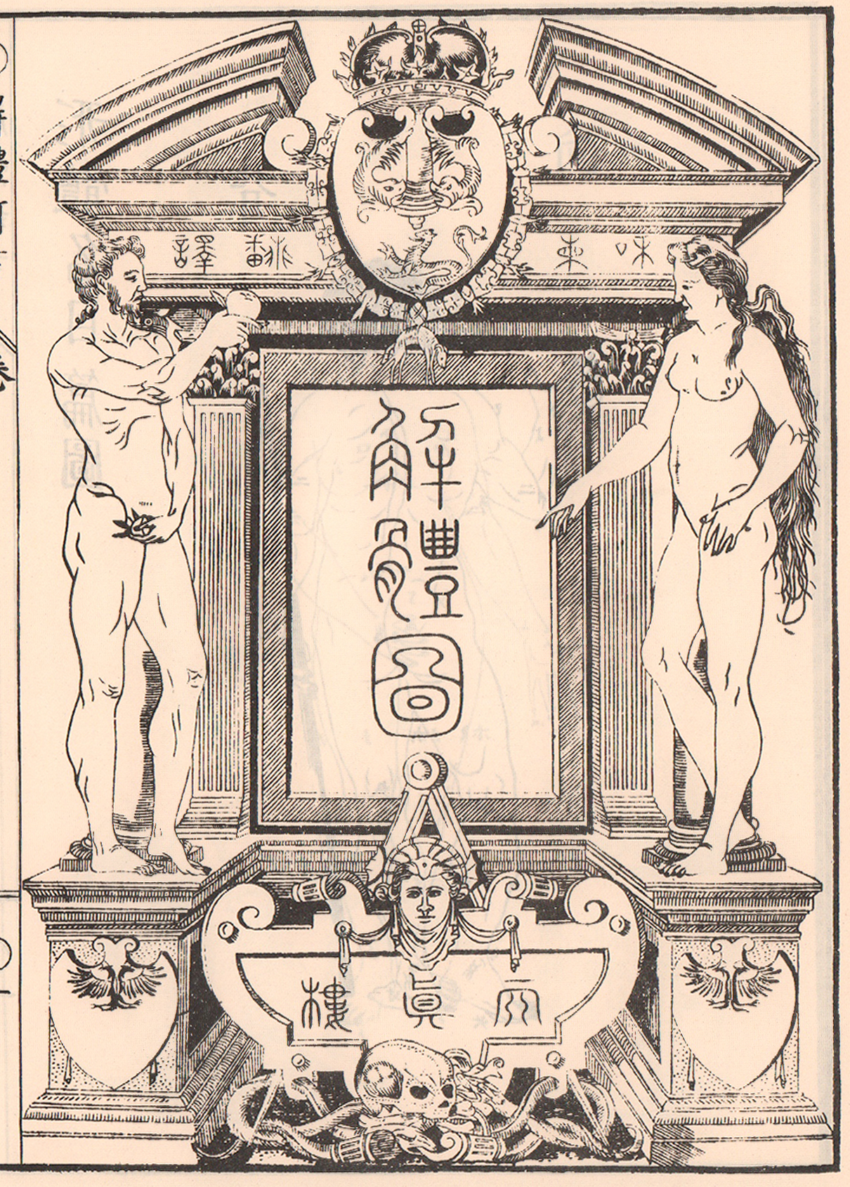 Frontispiece of: Sugita Genpaku et al.: Kaitai Shinsho. 1774